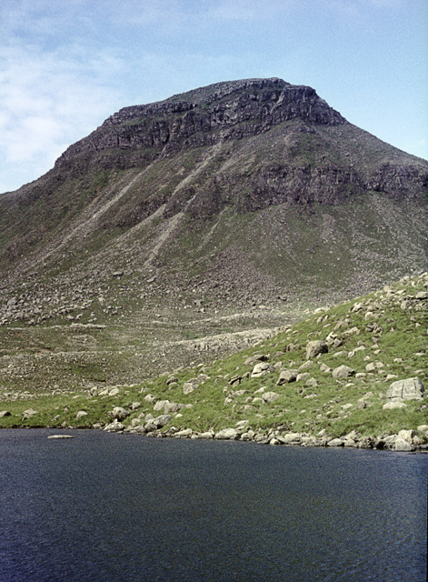 Hallival from Loch Coire nan Grunnd. The slopes on the right hand flank of the mountain were the breeding sites of the Manx Shearwaters that we had come to ring (at night). The neighbouring peak , Askival, is to the south, left of this image 1470803.